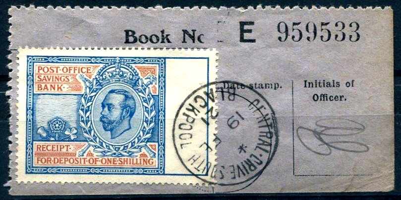 Post Office Savings Bank receipt stamp used in Blackpool 1921.